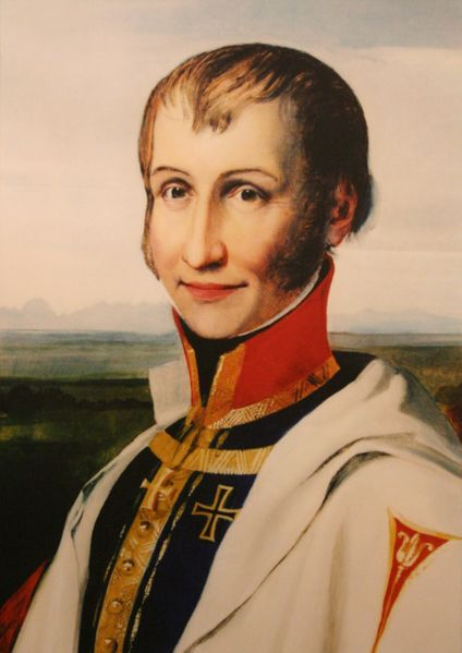 Archduke Maximilian Joseph of Austria-Este 1782-1863, Grand Master of the Teutonic Knights Order No. 56. from 1835